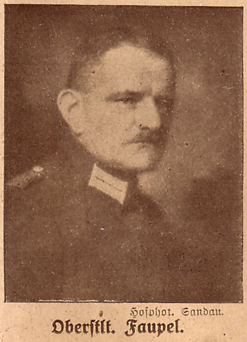 German Lieutenant Colonel Wilhelm Faupel (WW1)